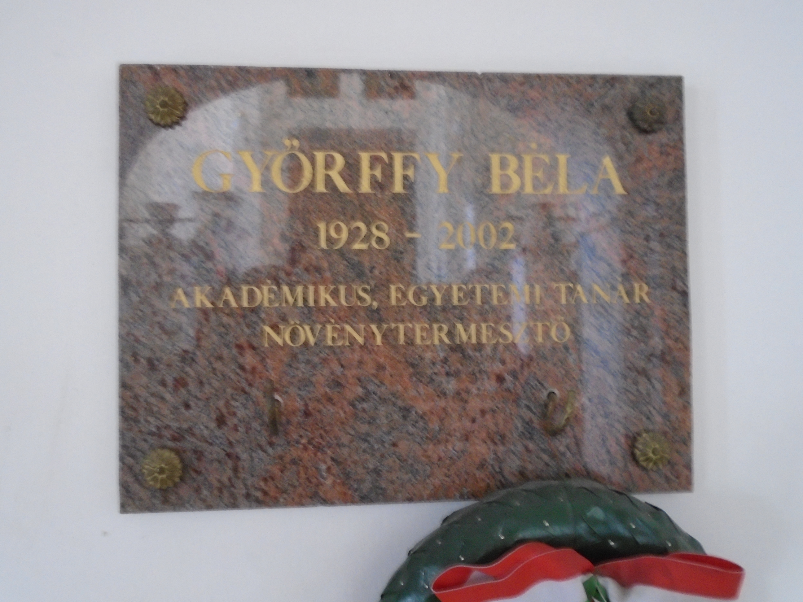 Béla Győrffy's commemorative plaque in Gödöllő.